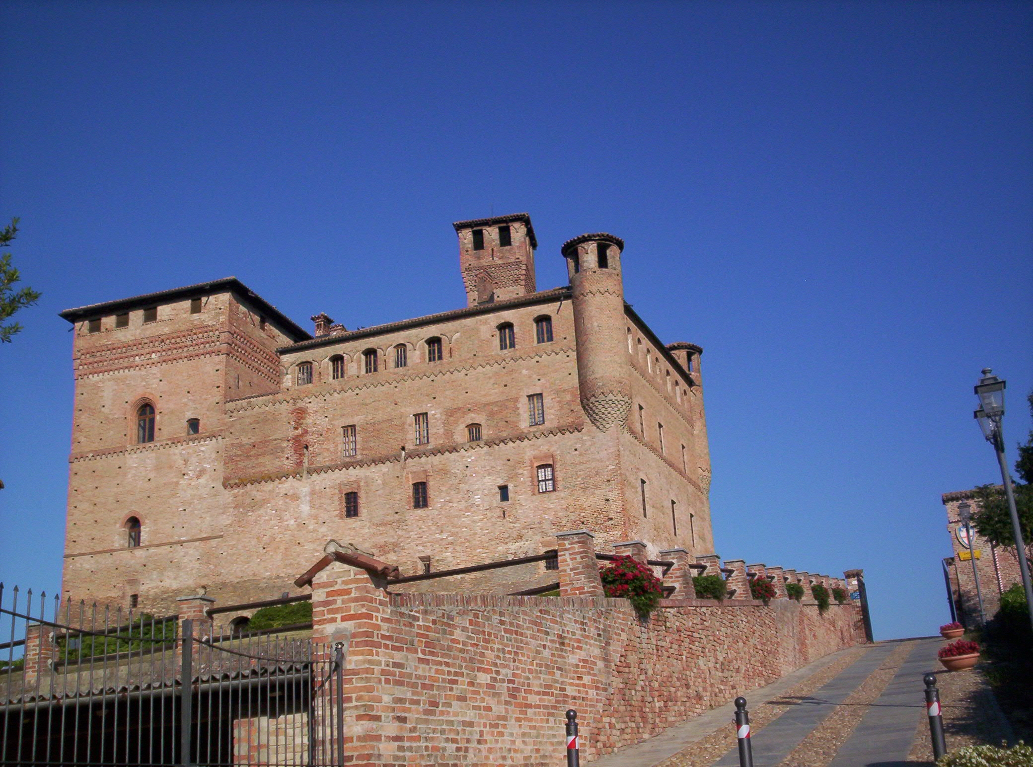 Castle of Grinzane Cavour, Alba (CN) - Italy